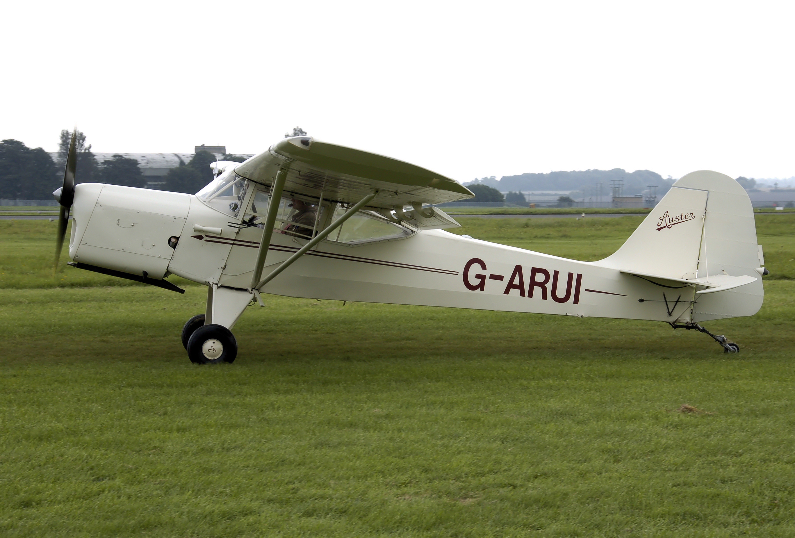 Beagle Auster A.61 Terrier (G-ARUI) at Kemble Airport Open Weekend, Gloucestershire, England, built in 1962.